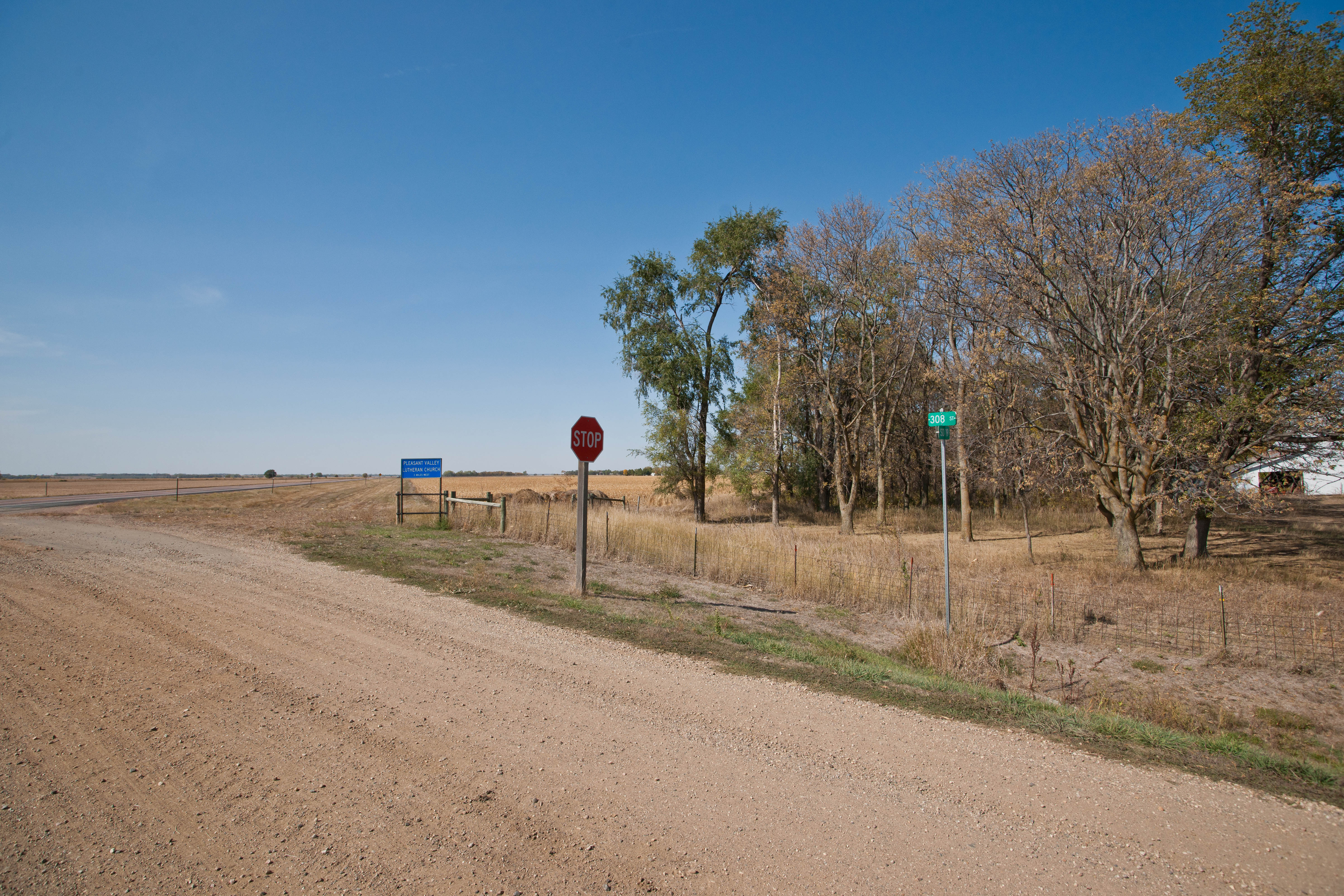 From